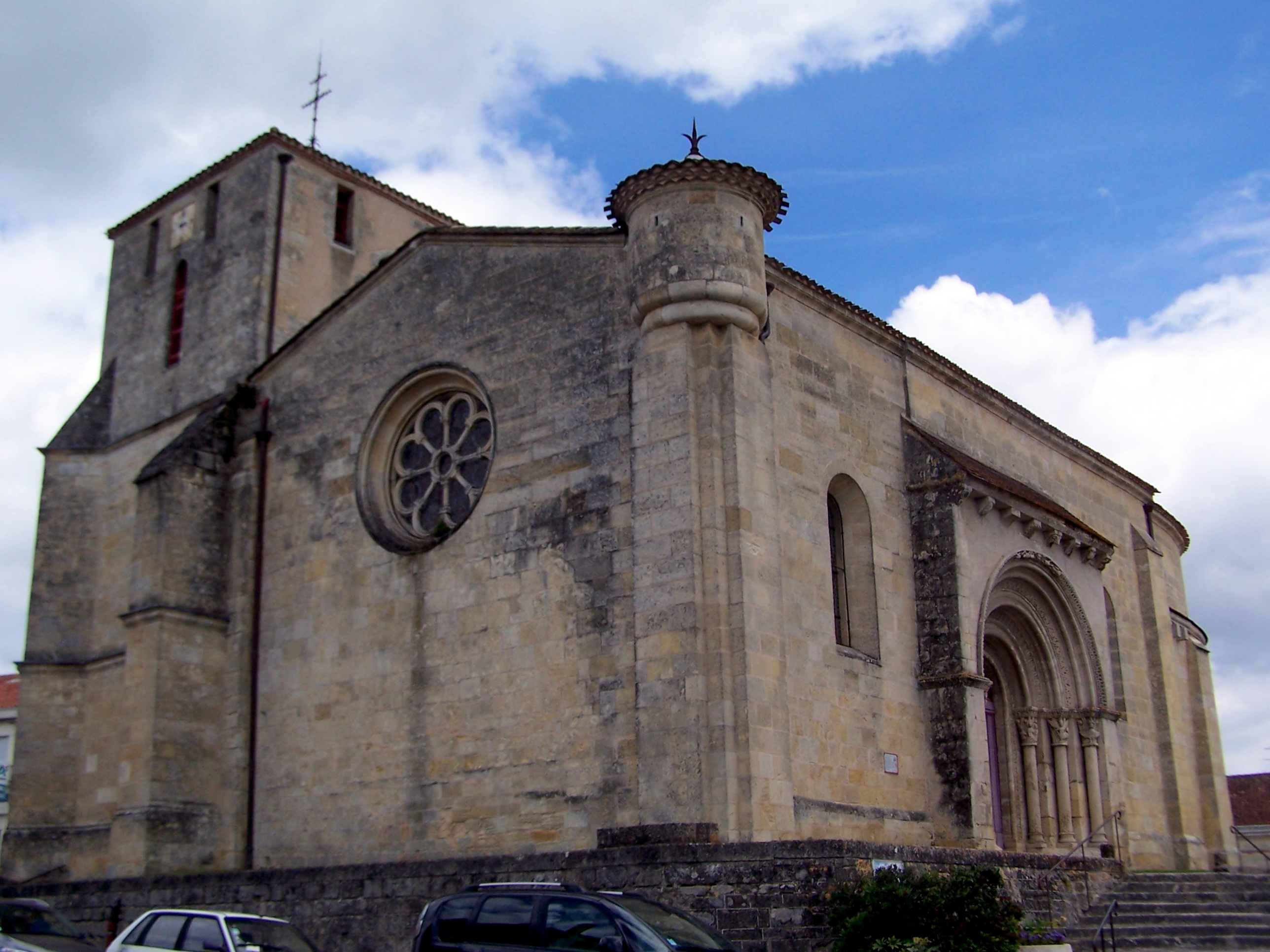 Saint Romanus church of Targon (Gironde, France)